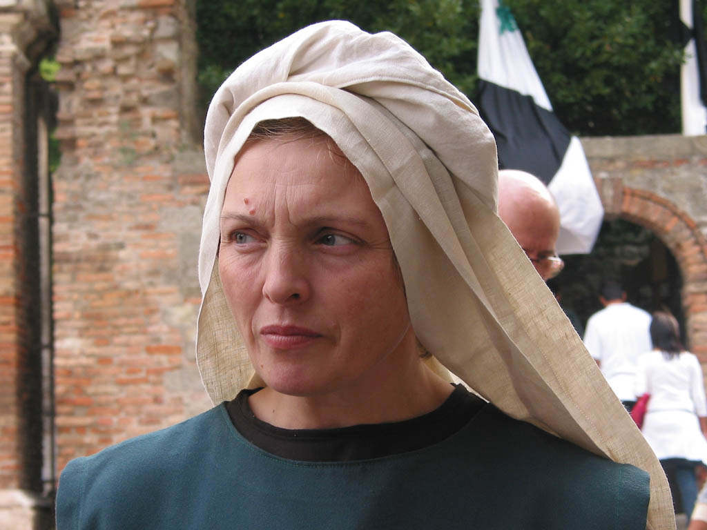 Menselice, castle